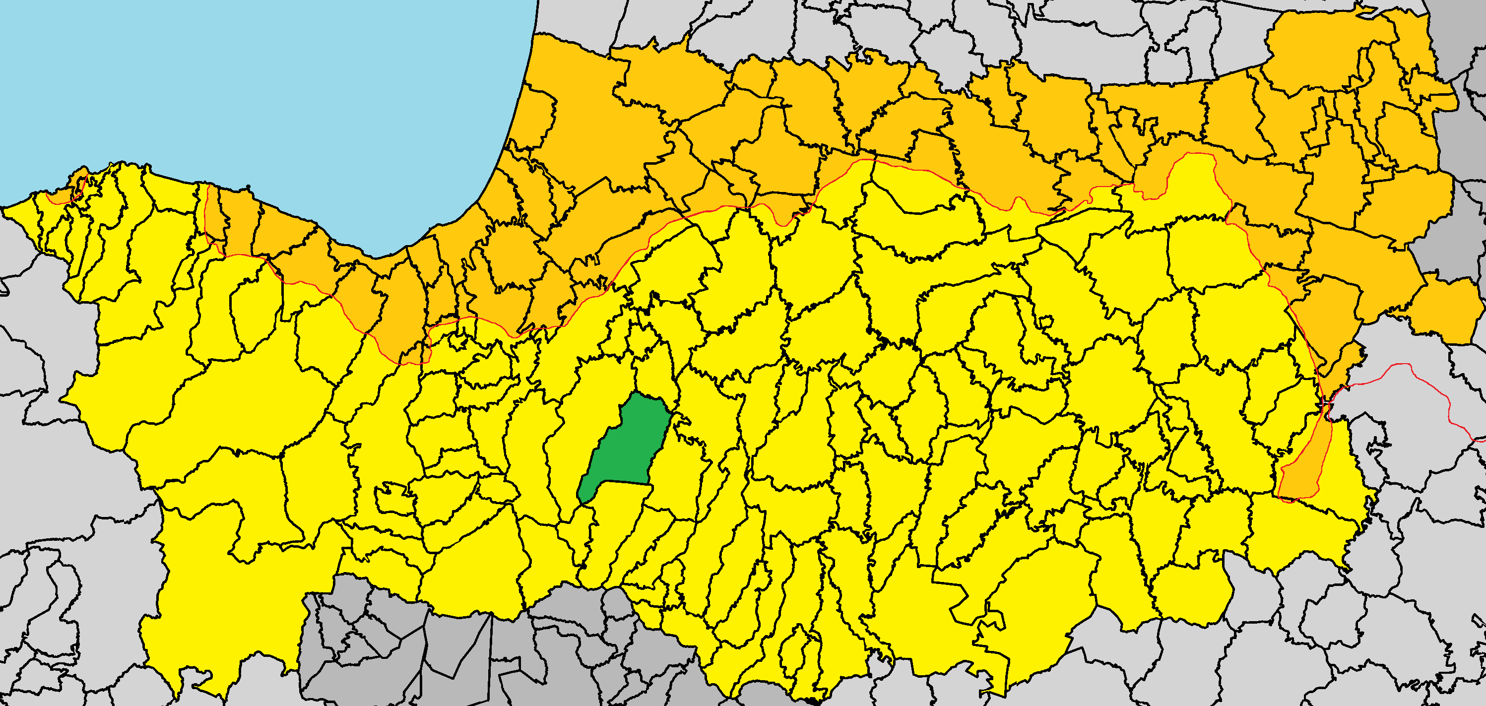 Agios Georgios, Nicosia in Nicosia District.